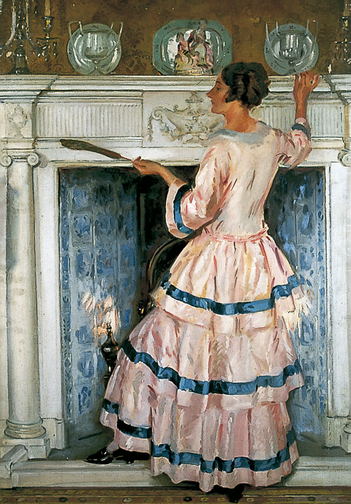 Ranken, William Bruce Ellis; Mrs Kelsey in Pink; York Museums Trust